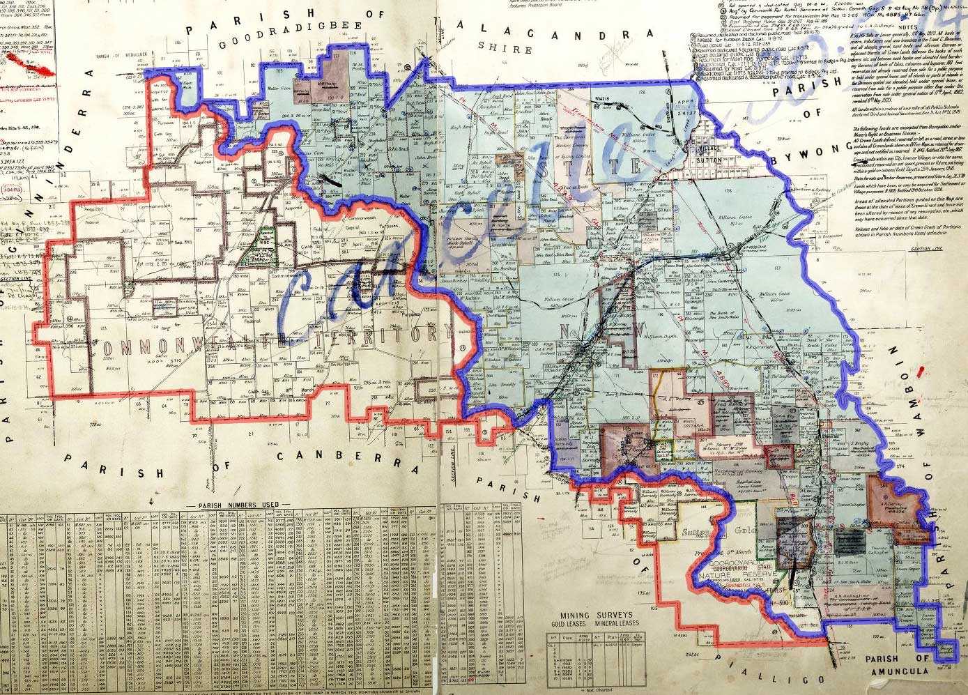 Map of the Parish of Goorooyarroo, County of Murray, New South Wales. Boundary of the parish since 1909 Parts of the parish which were transferred to the Commonwealth for the ACT in 1909